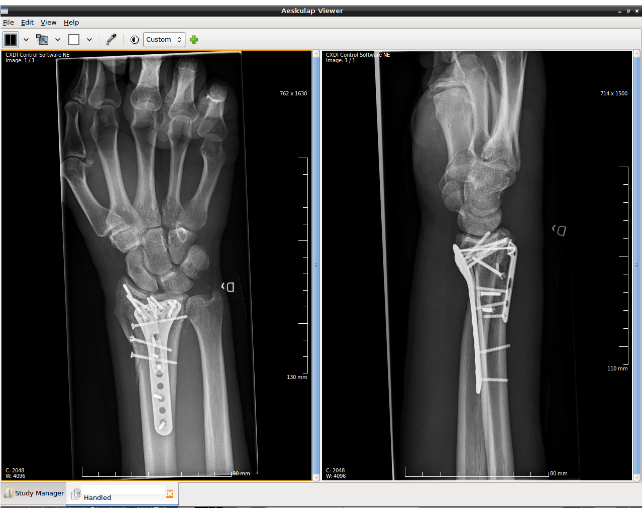 Screenshot of X-ray, as seen in DICOM imaging free software application Aeskulap. Wrist fracture internally fixated with plates and screws.